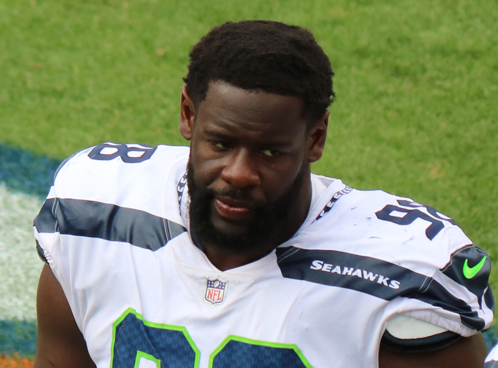 {W|Shamar Stephen , a National Football League player.